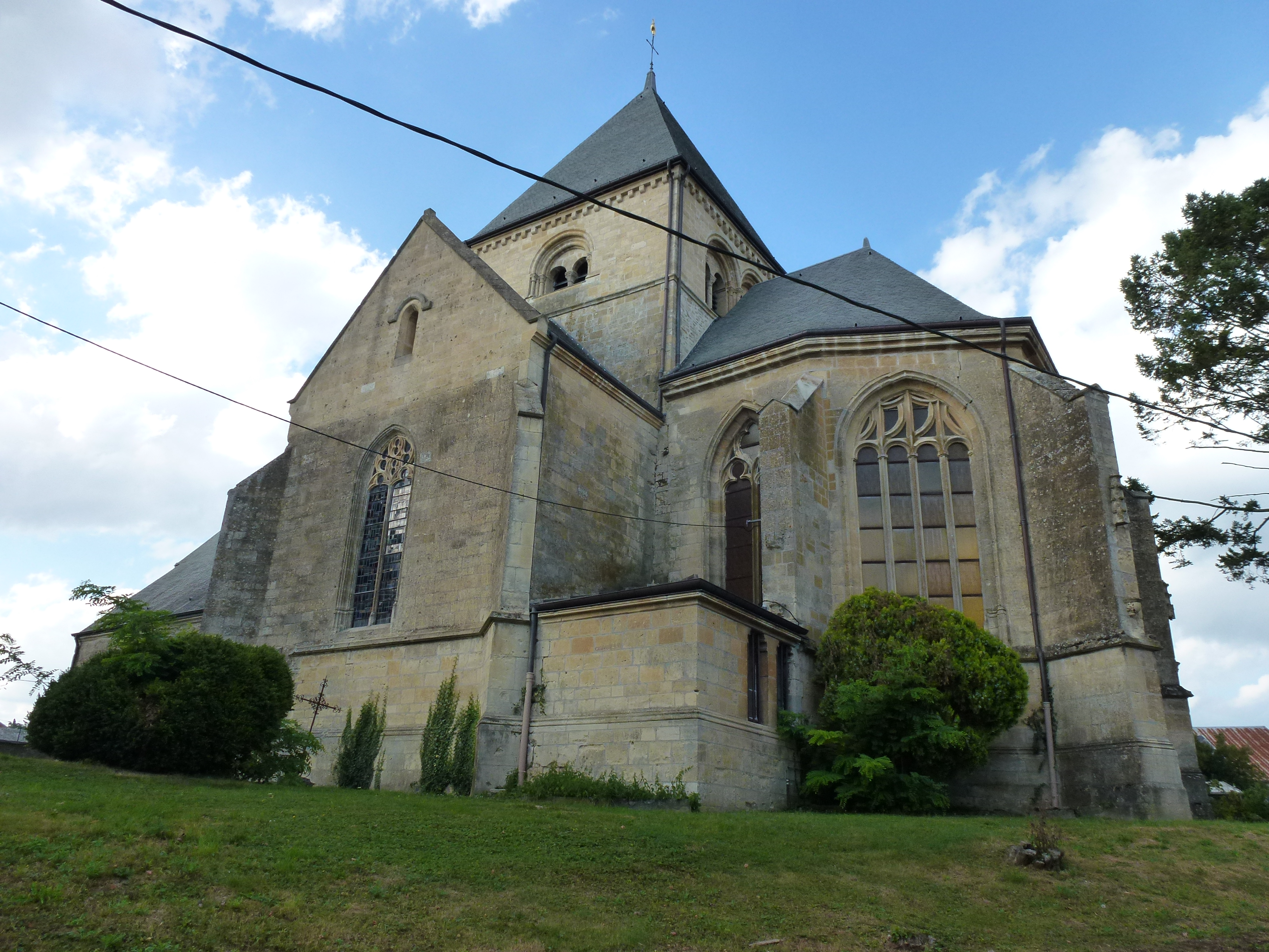 Alland'Huy-et-Sausseuil (Ardennes) église Sainte-Catherine d’Alland'Huy